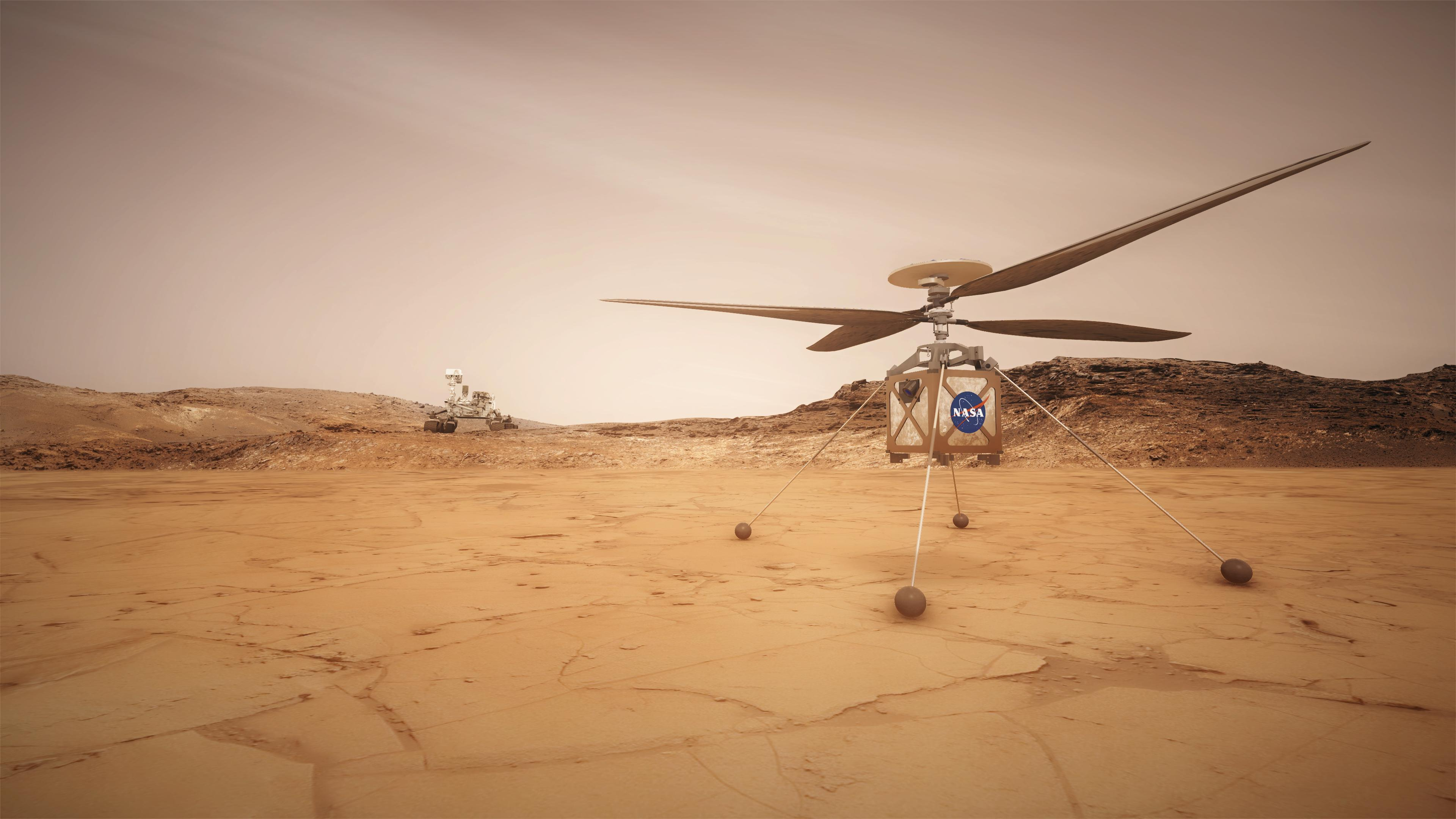 PIA22460: Mars Helicopter (Artist's Concept) This artist concept shows the Mars Helicopter, a small, autonomous rotorcraft, which will travel with NASA's Mars 2020 rover mission, currently scheduled to launch in July 2020, to demonstrate the viability and potential of heavier-than-air vehicles on the Red Planet. NASA's Jet Propulsion Laboratory will build and manage operations of the Mars 2020 rover for the NASA Science Mission Directorate at the agencys headquarters in Washington. For more information about the mission, go to